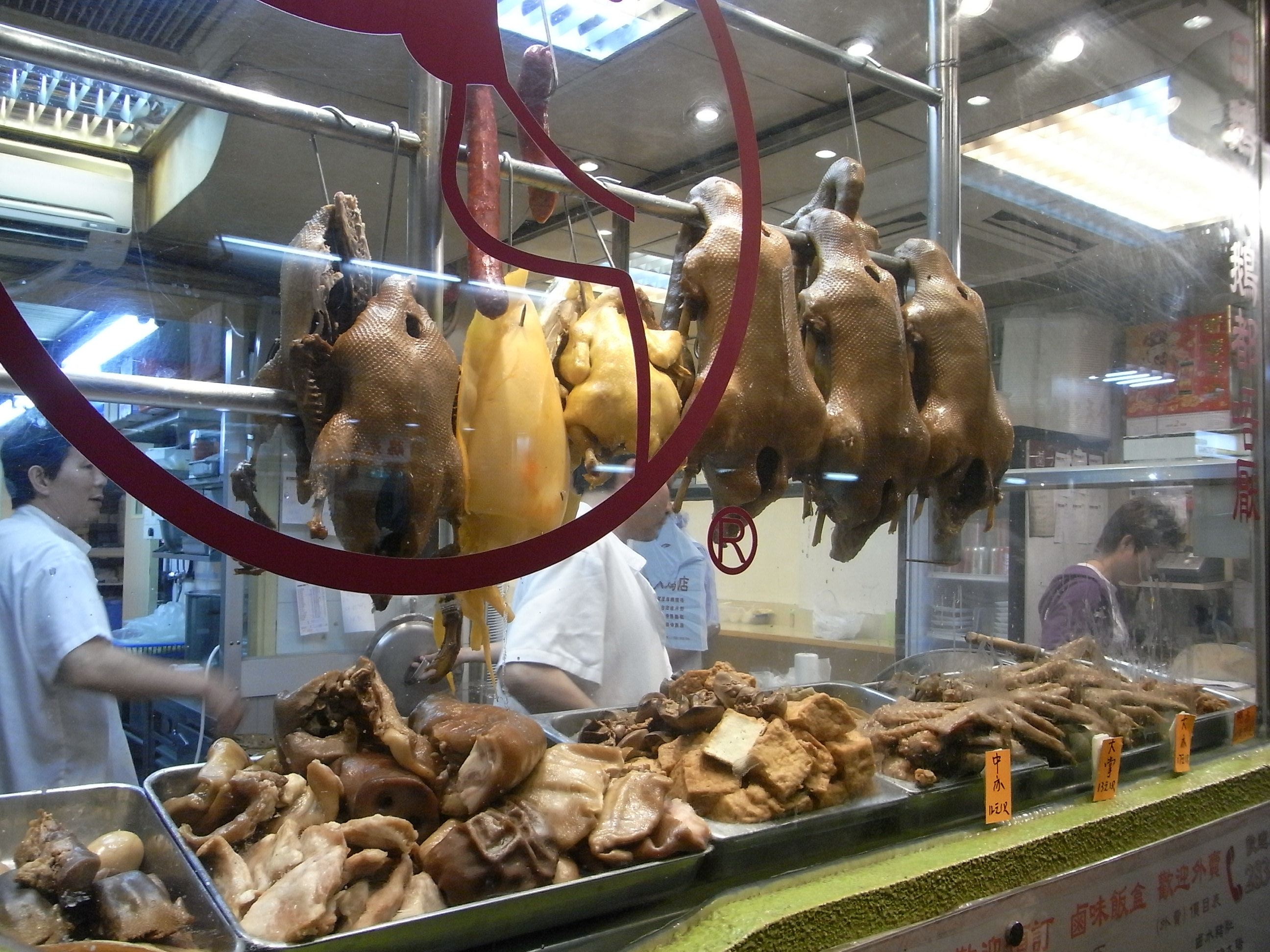 灣仔春園街